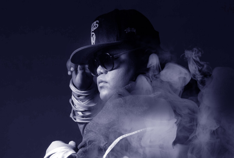 Adib wearing a glasses while posing for his photoshoot